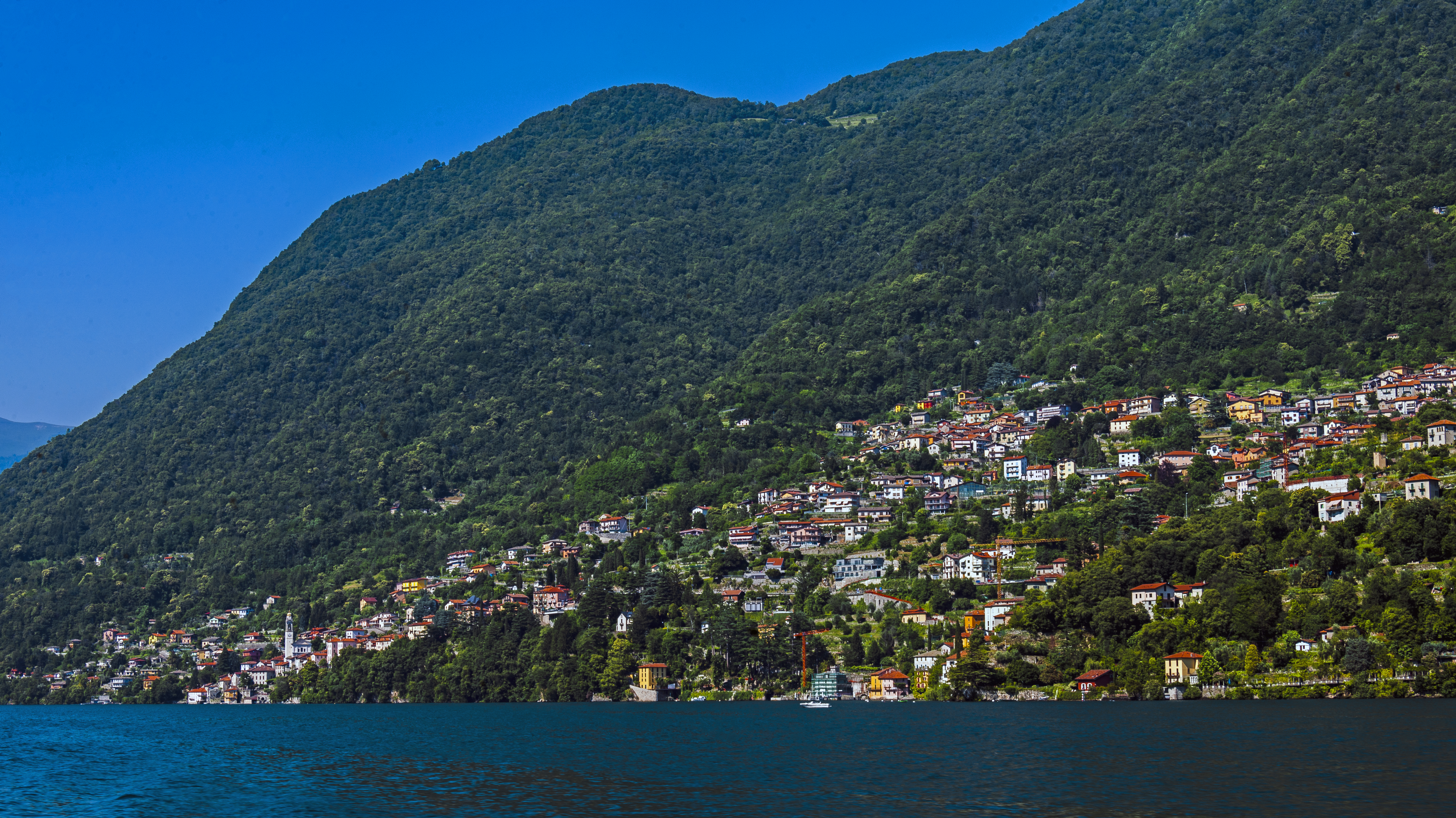 Nesso, from the ferry up Lake Como